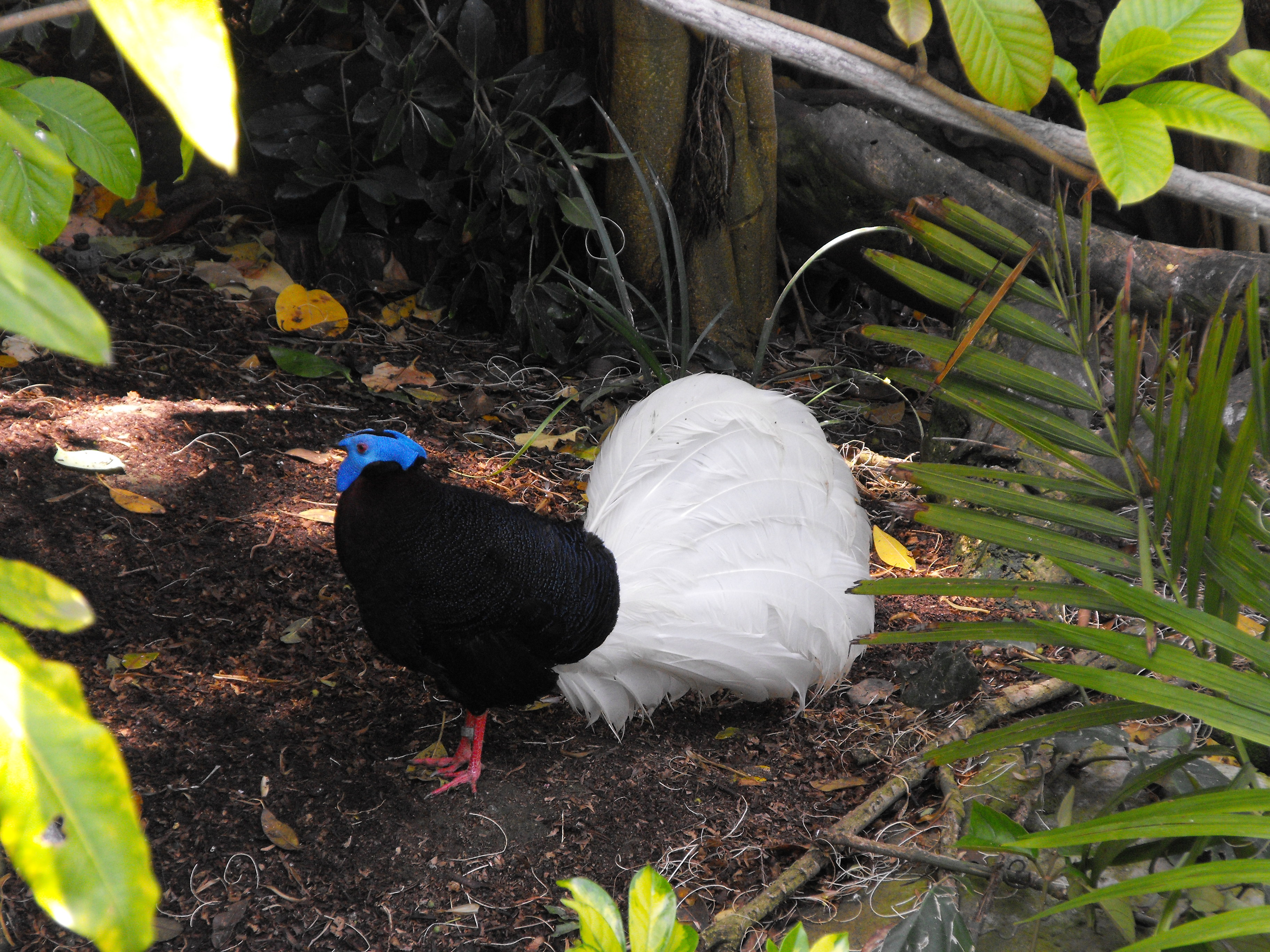 Lophura bulweri, Bulwer's Pheasant, at the San Diego Zoo, California, USA.